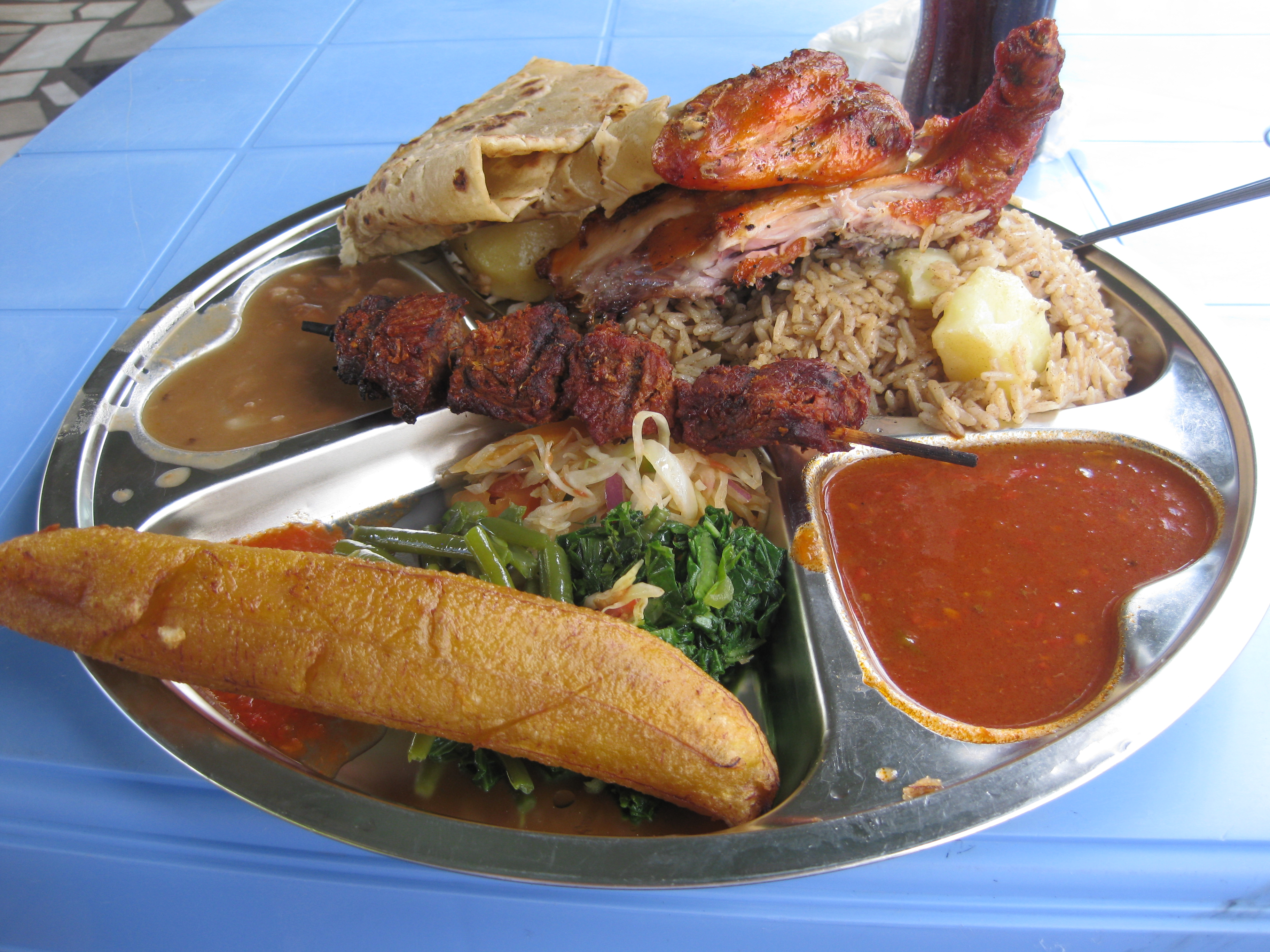 Traditional Tanzanian food consisting of pilau kuku, mishkaki, ndizi, maharage, mboga, chapatti, pili pili. This is an image of food from Tanzania